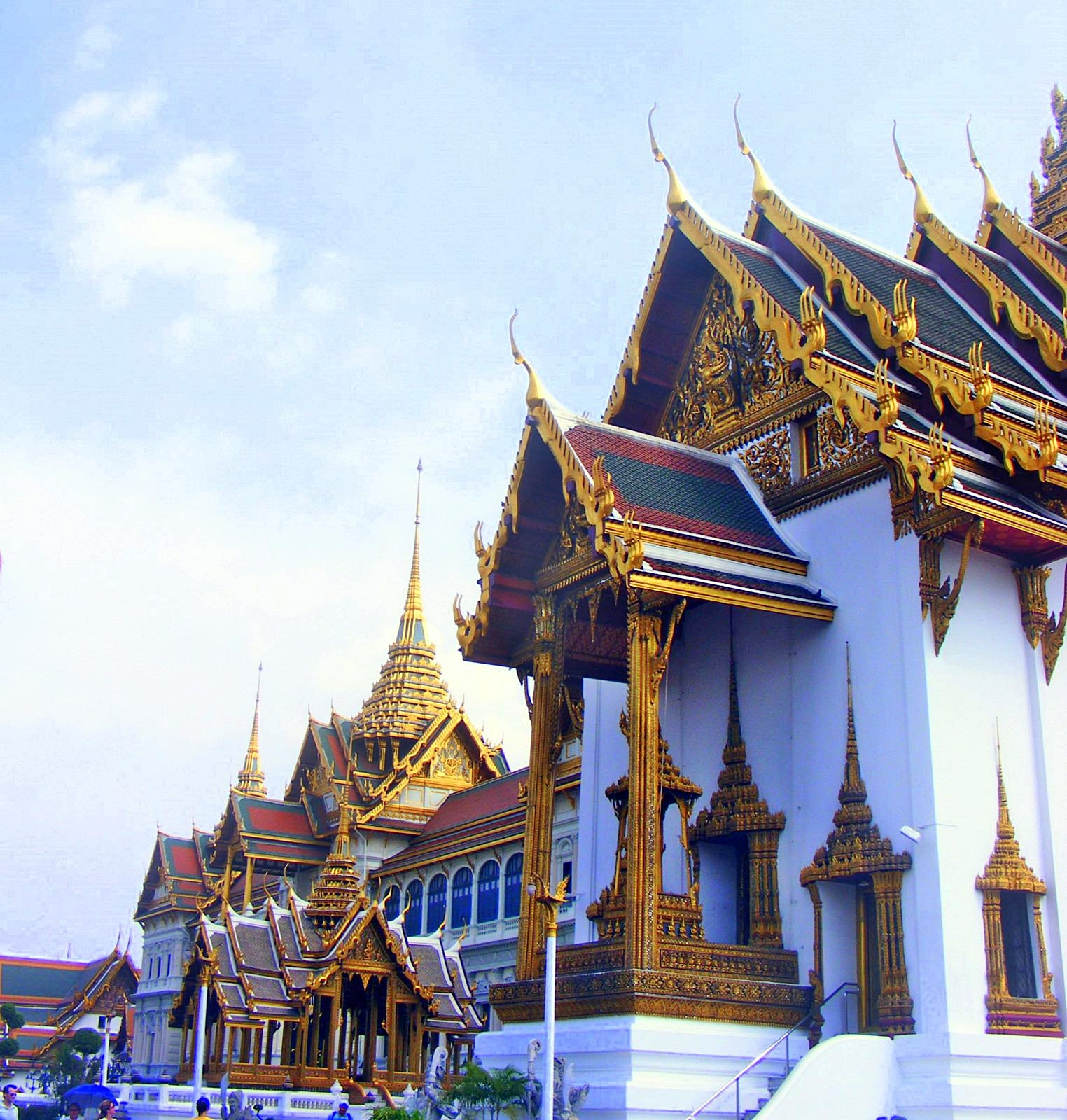 The Grand Palace of Thailand Location: Bangkok, Thailand.